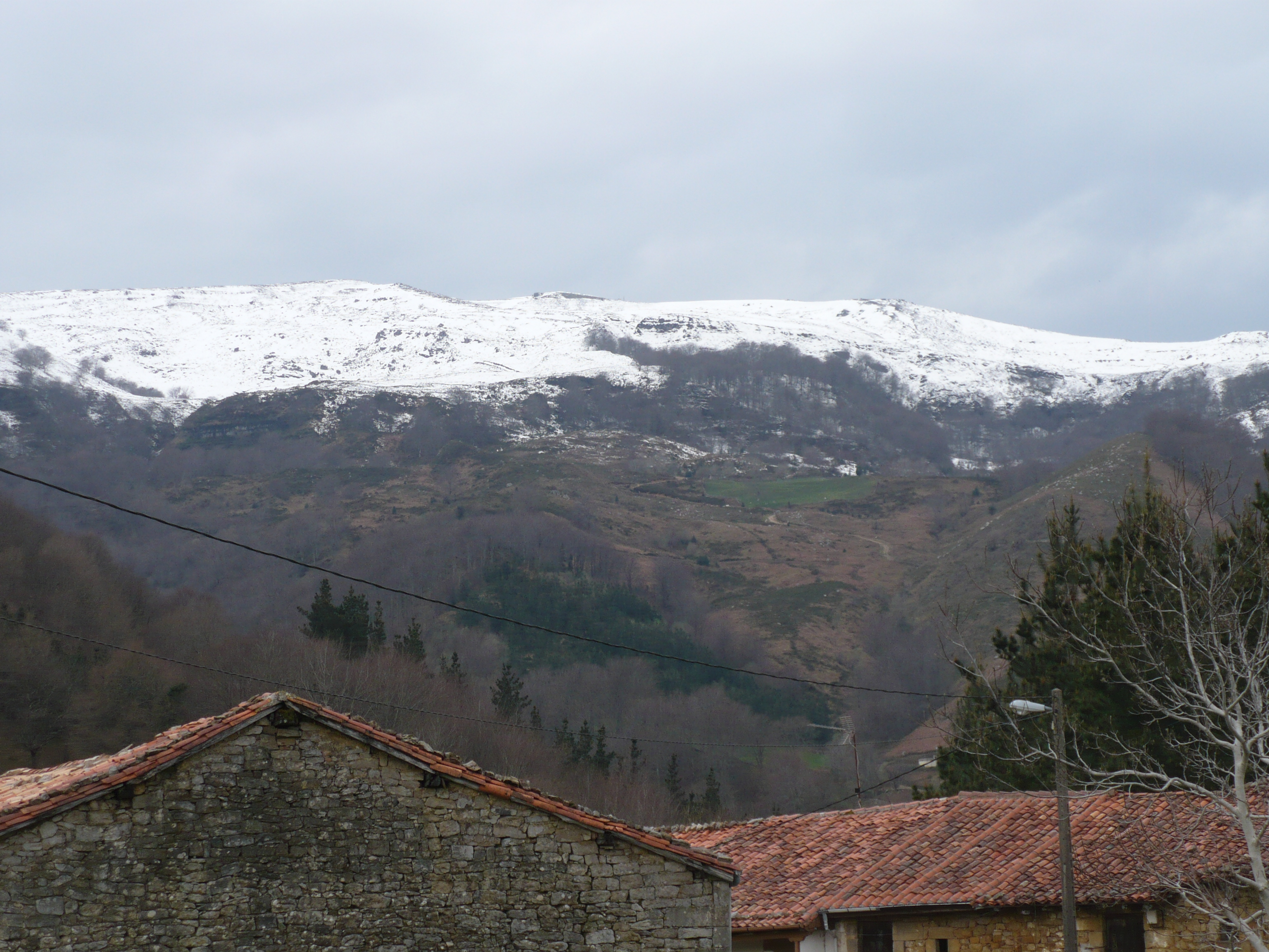 Partial view of the Sierra del Escudo mountain range as seen from Luena (Cantabria). The Miyaju Altu peak is seen at the centre of the picture